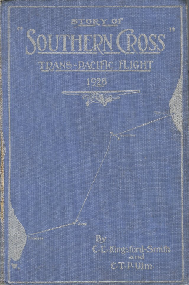 First edition cover of "Story of Southern Cross Trans-Pacific Flight 1928" by C. E. Kingsford-Smith and C. T. P. Ulm. Published by Penlington & Somerville, Sydney, Australia, 1928